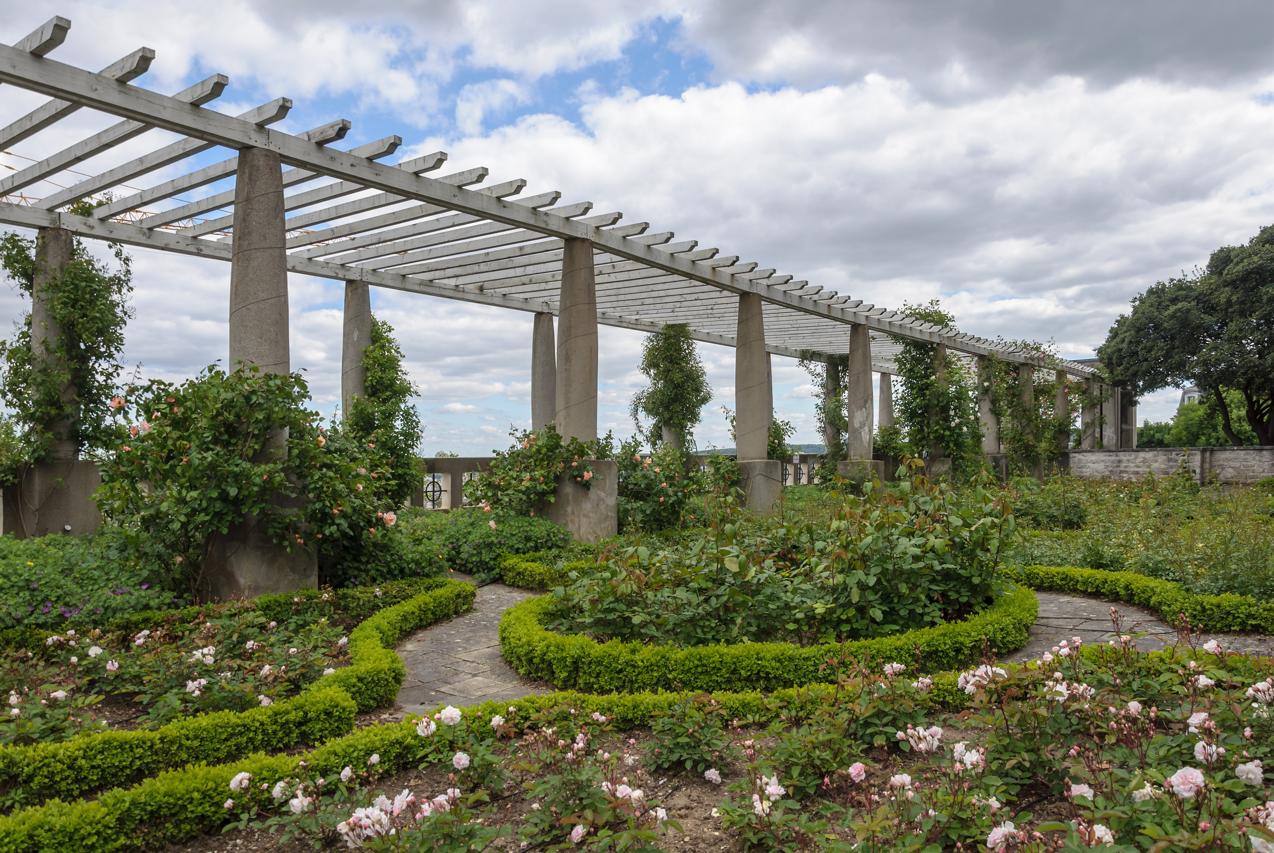 The Stern Garden, designed by Jean-Claude Nicolas Forestier in 1927 in Saint-Cloud, Hauts-de-Seine, France: the rose garden and the pergola. .